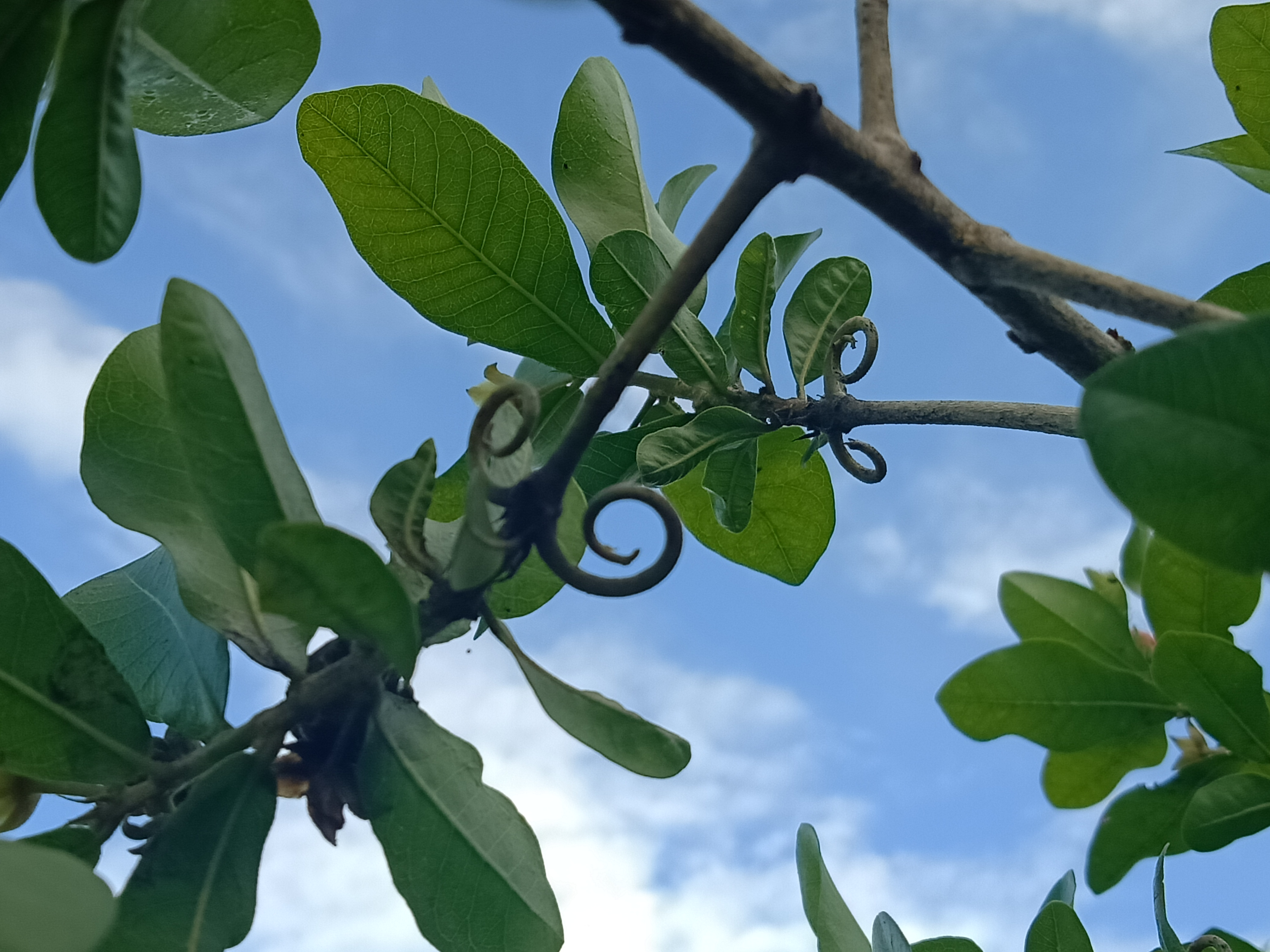 Hugonia mystax, recurved spines resembling moustache that gives species name. Thiruvannamalai